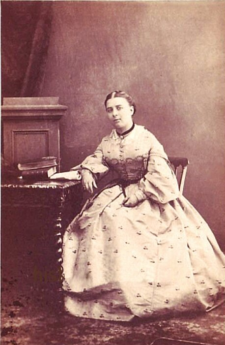 Marietta Piccolomini (15 Mar 1834 - 23 Dec 1899) was an Italian soprano.